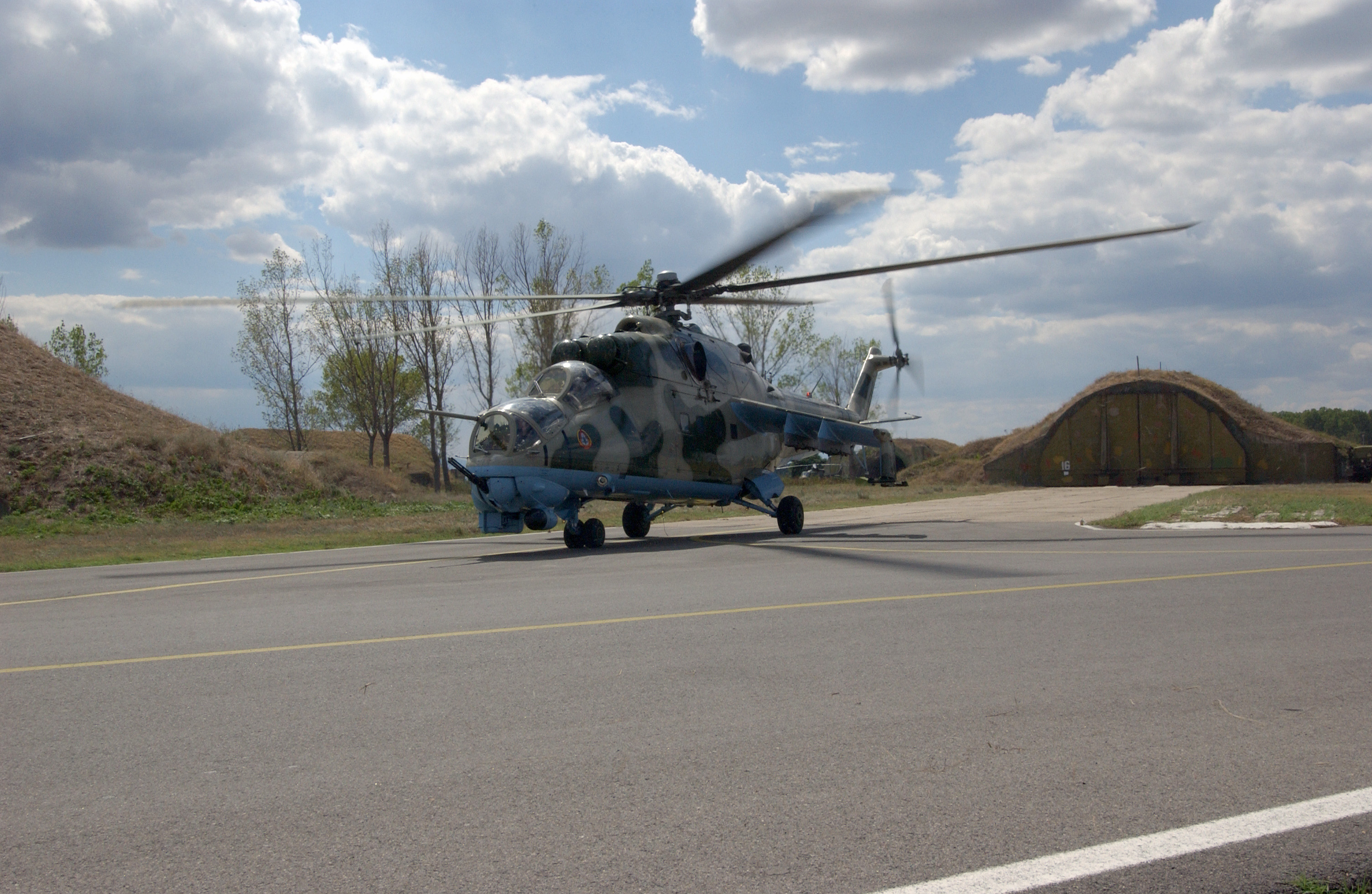 A Russian designed MI-24 Hind helicopter from the Former Yugoslavian Republic of Macedonia, begins training operations in support of exercise Cooperative Key 2003 at Graff Ignatievo Air Base (AB), Bulgaria (BGR).